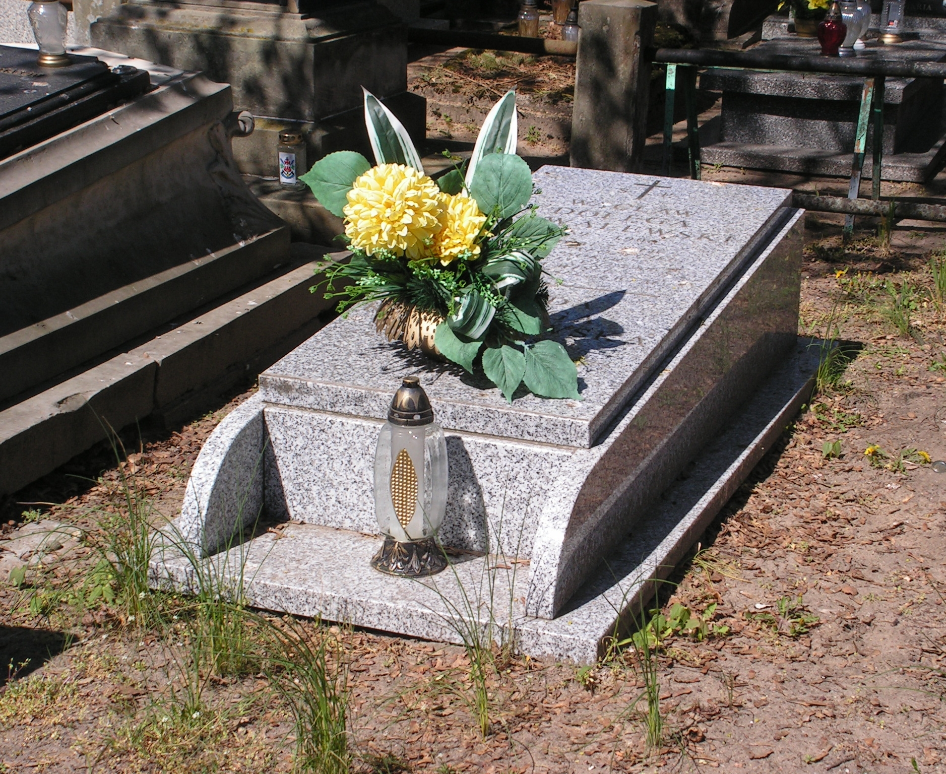 Grave of social activist Wacław Antoni Kowalewski (1858-1906) and his daugher, teacher Wanda Zofia Kowalewska (1896-1983) on Communal Cemetery in Włocławek. Grave is bordering to monument for victims of catastrophe on Vistula River from 13th of august 1906 year, which Wacław was one of the victims, and also to graves of Kazimierz Łada (1824-1871) and Tekla Marcjanna Szałwiński born Puchalski (1842-1910).